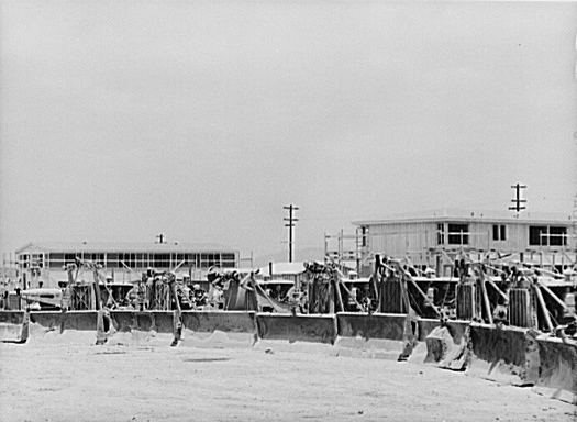 Defense worker housing at Kearney-Mesa, California, (now part of San Diego), being built by the Public Buildings Administration of the Federal Works Agency in May 1941. Bulldozers with houses under construction.